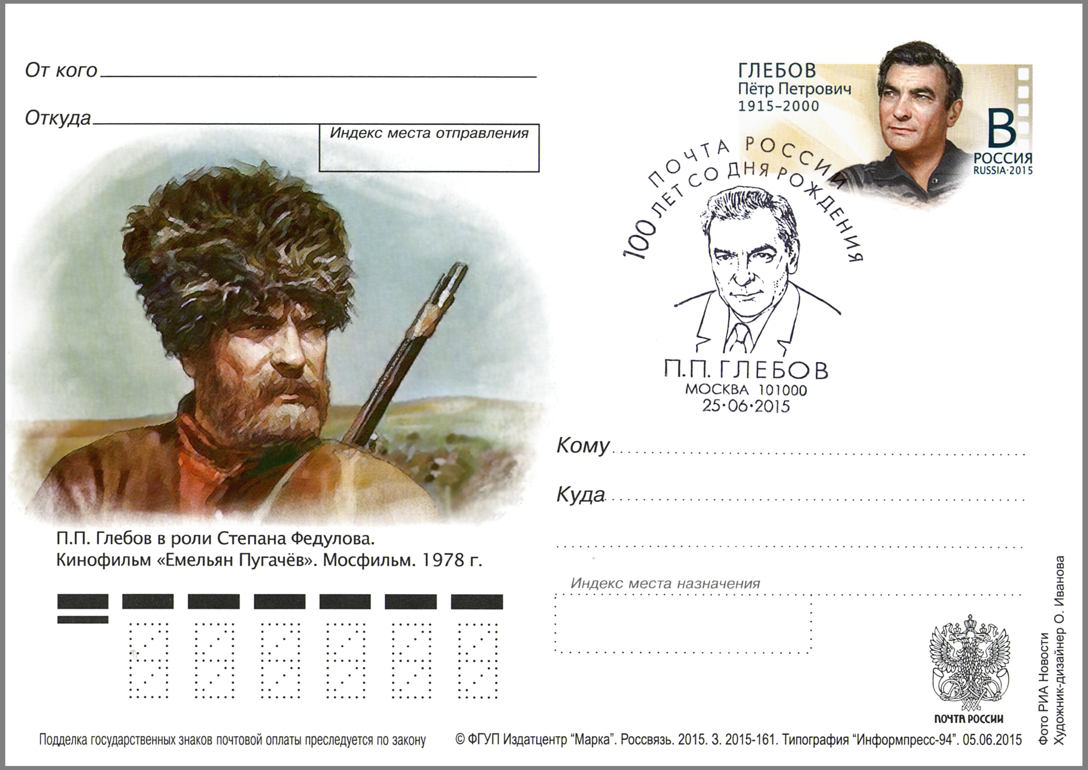 100th birth anniversary of Pyotr Glebov (1915—2000), a Soviet cinema and theater actor. The postal stationery card with the imprinted commemorative stamp, Russia, 25 June 2015, PTC Marka Catalogue No 268/окр. Coated paper. Offset printing. Size of the postal card: 105×148 mm. Print run: 13,000. The commemorative non-denominated stamp “Letter B” (for domestic postal cards): the portrait of Pyotr Glebov. The illustration: Pyotr Glebov as Stepan Fedulov in the film Yemelyan Pugachev (USSR, Mosfilm, 1978). Pictorial cancellation: Moscow, 25 June 2015, Catalogue of PTC Marka No 2015/209-ш.